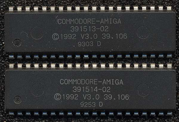 A set of kickstart 3.0 ROM units for Amiga 4000 computers